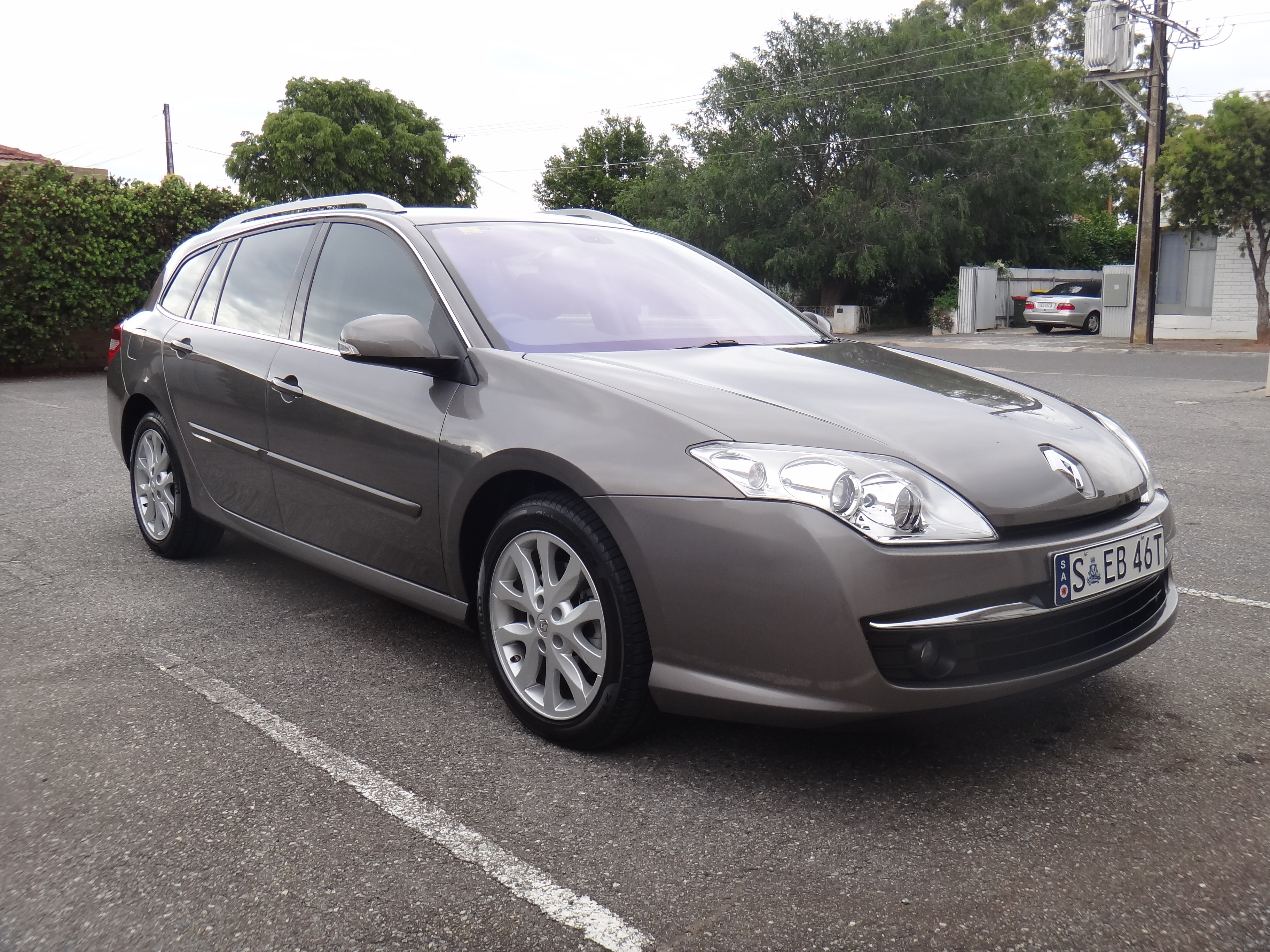 My previous daily driver before the Latitude. These were some of the pictures I had taken/used when I had put it up for sale. It was sold in a week!! Still miss this car and the colour too!